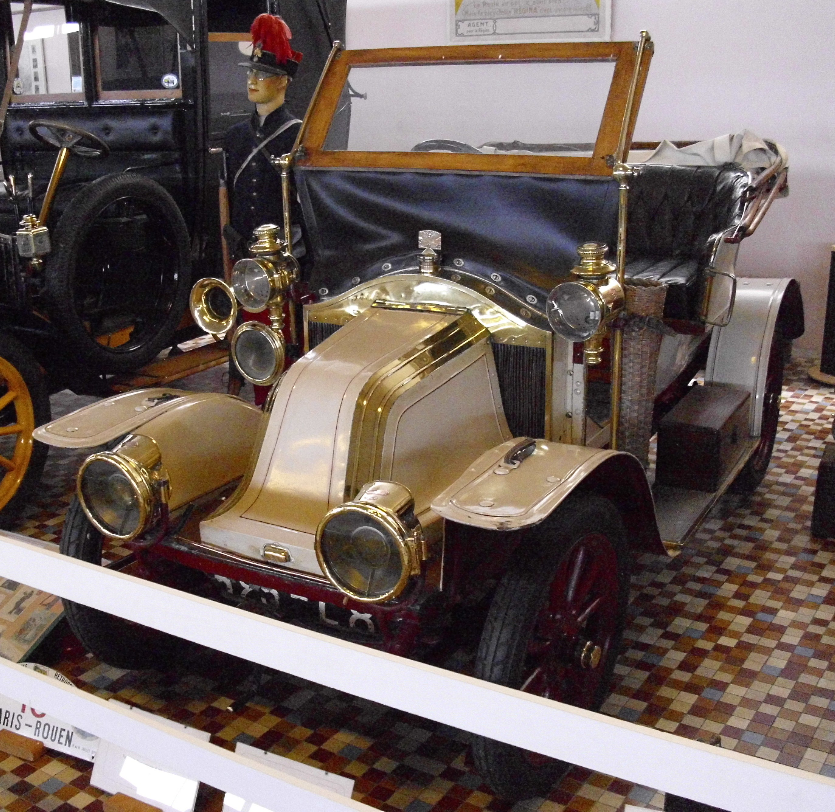 Renault Type AX Phaeton 1912